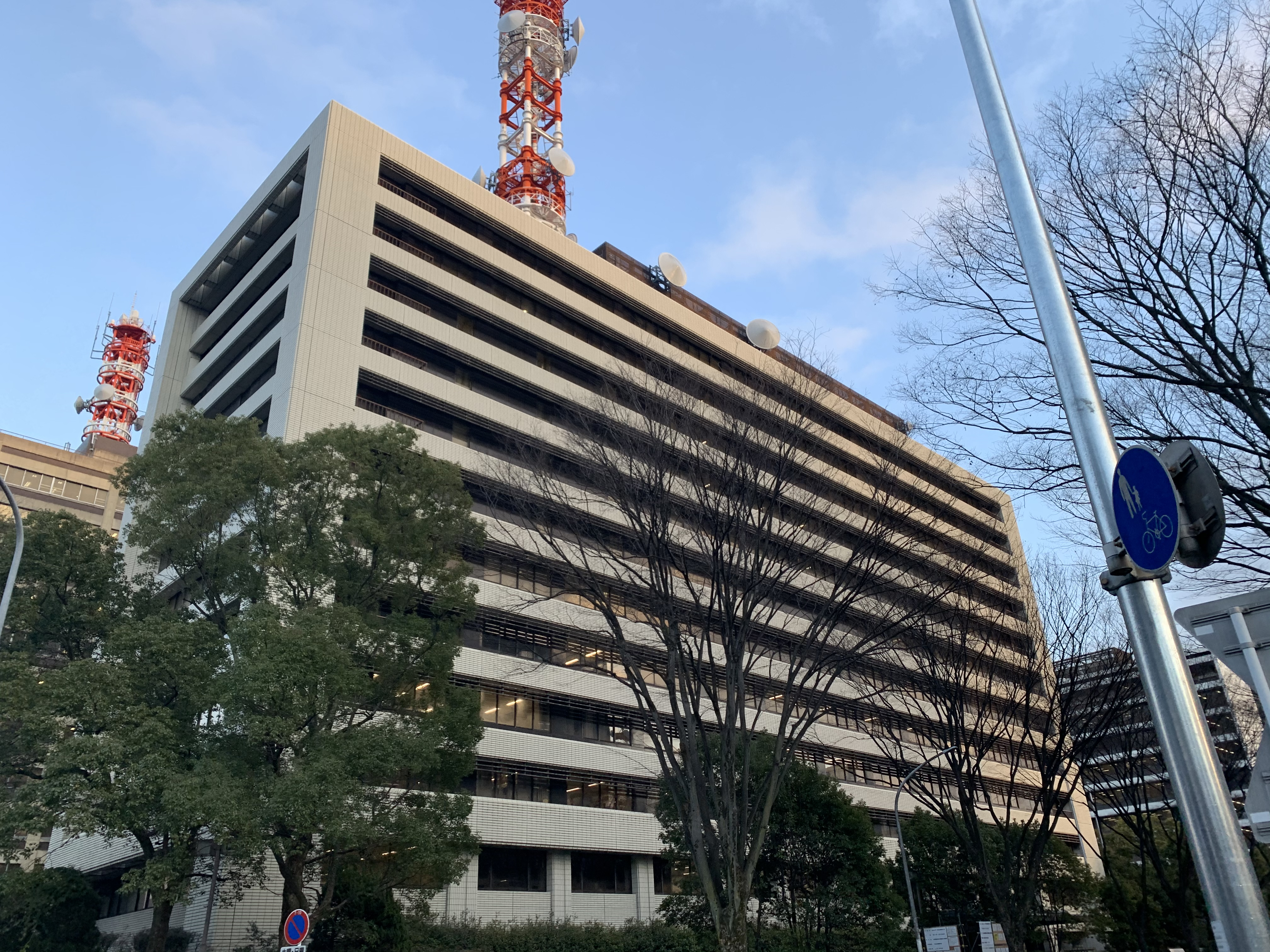 2020年2月10日16:58 撮影